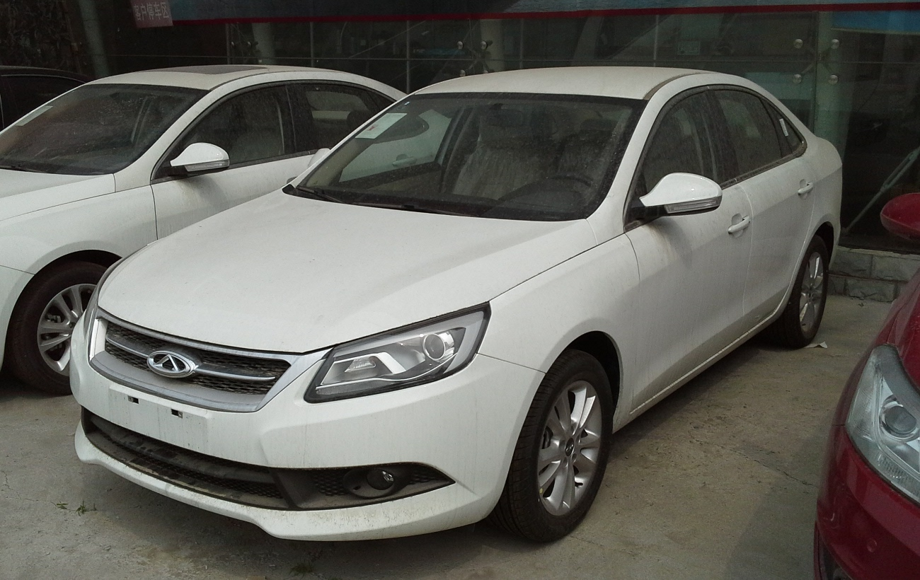 Chery Arrizo 7 photographed in Beijing, China.